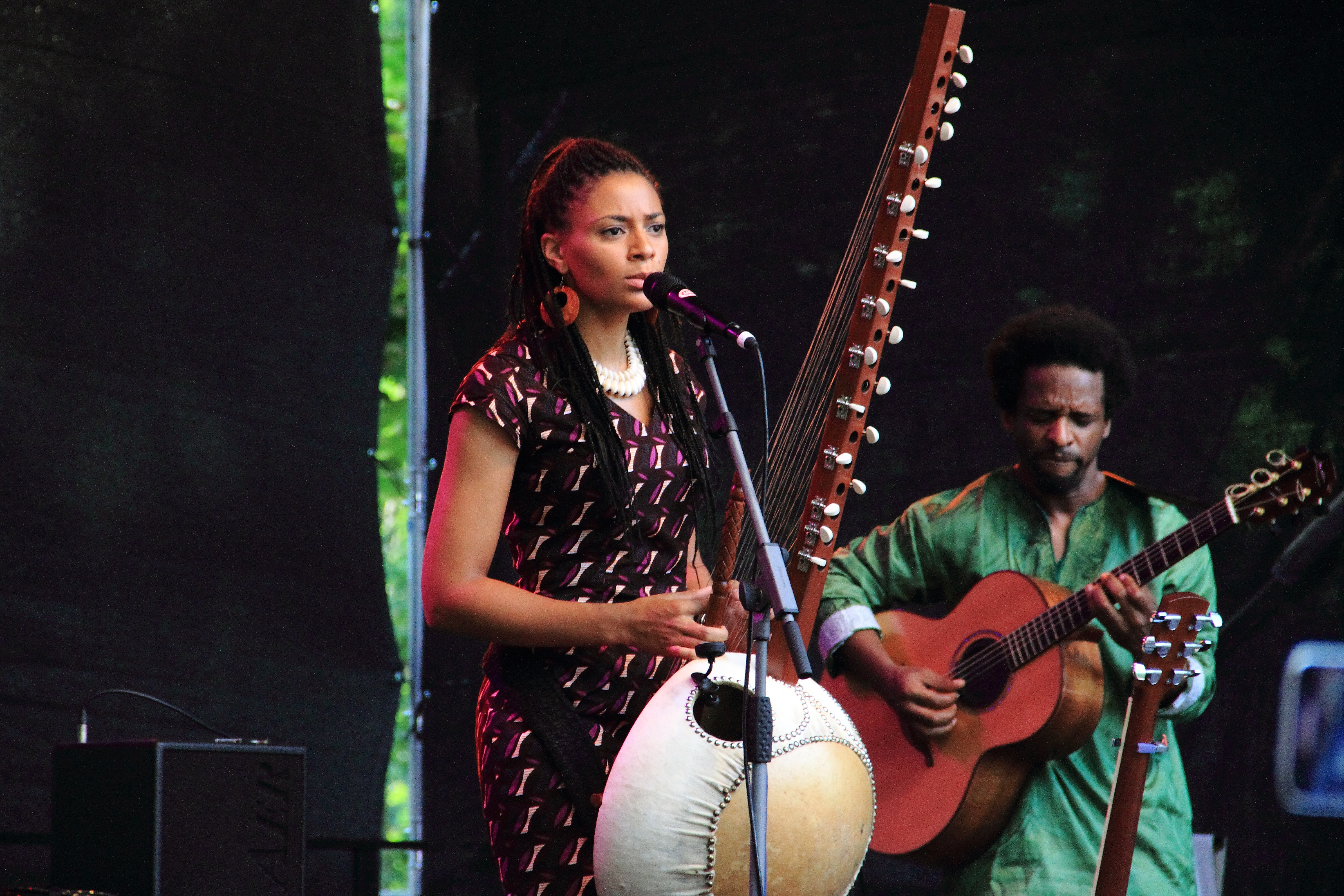 Kora Player Sona Jobarteh from Gambia at TFF Rudolstadt, 2015.